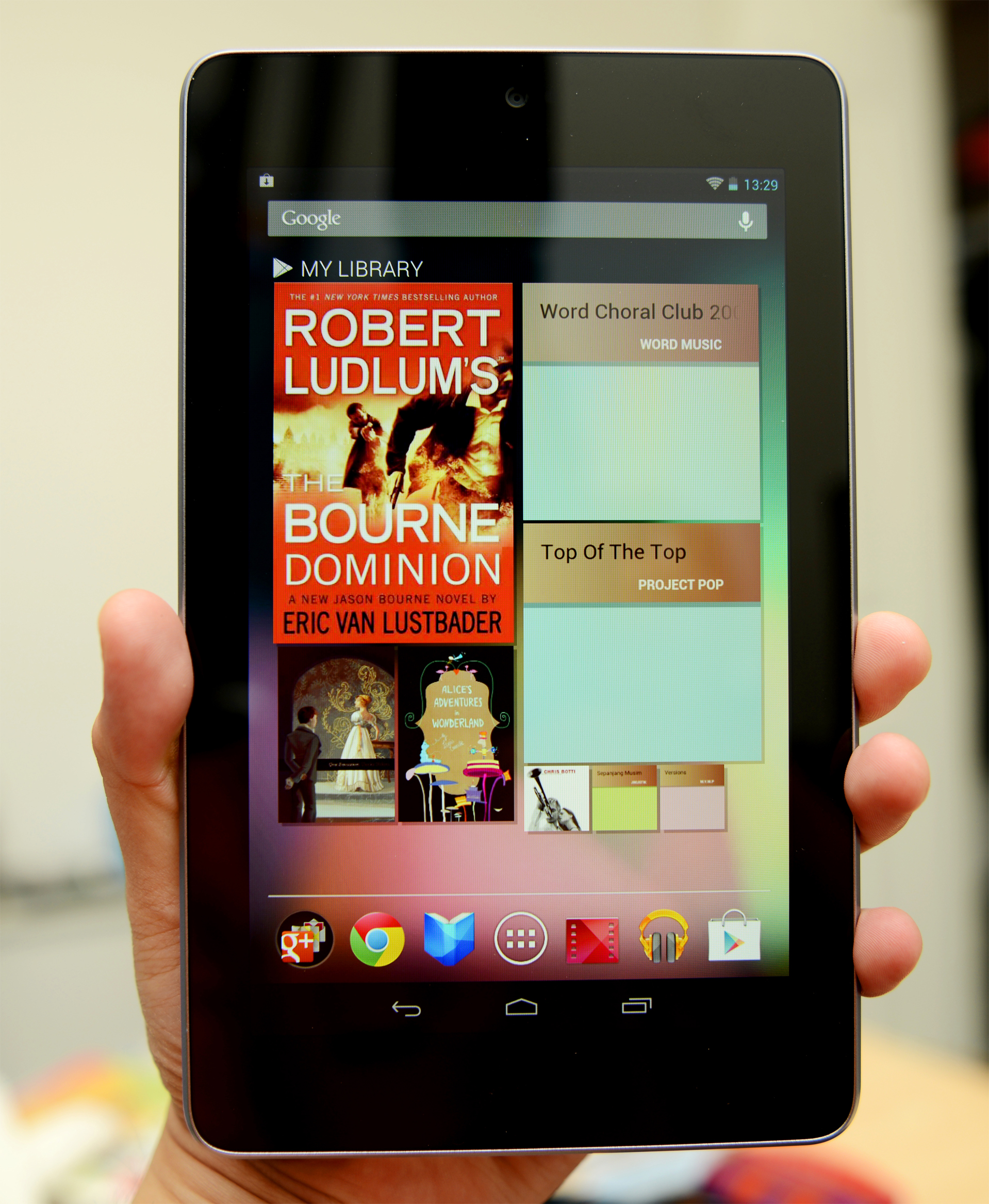 An image of the home screen from Google's Nexus 7 tablet